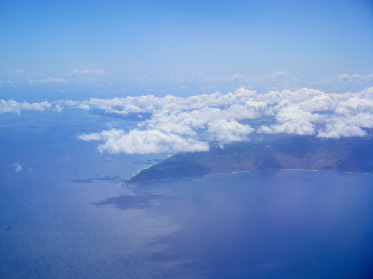 Aerial Photo of Kaena Point, Oahu Hawaii